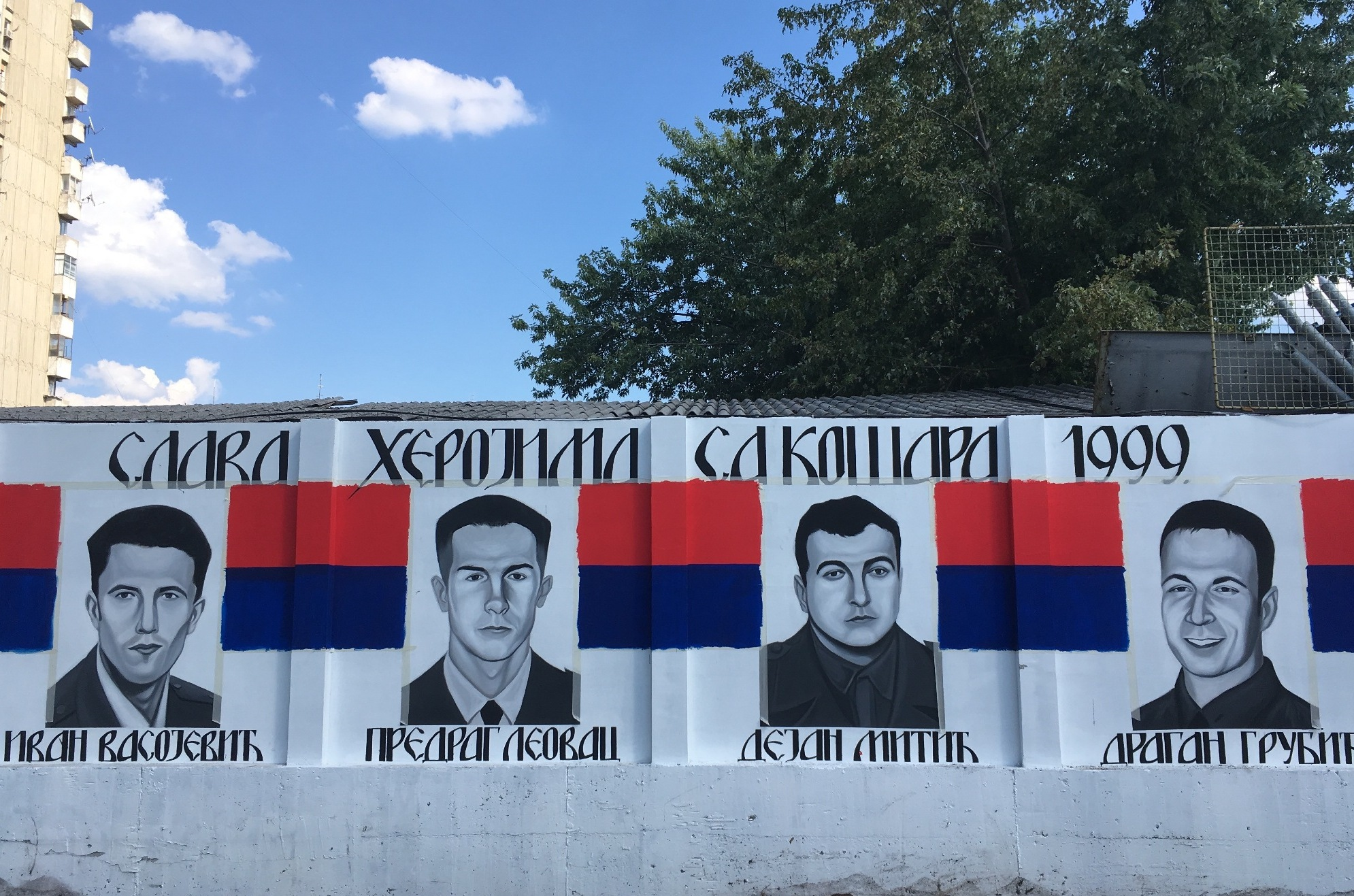 A street graffiti honoring the fallen soldiers of the Battle of Košare in Niš